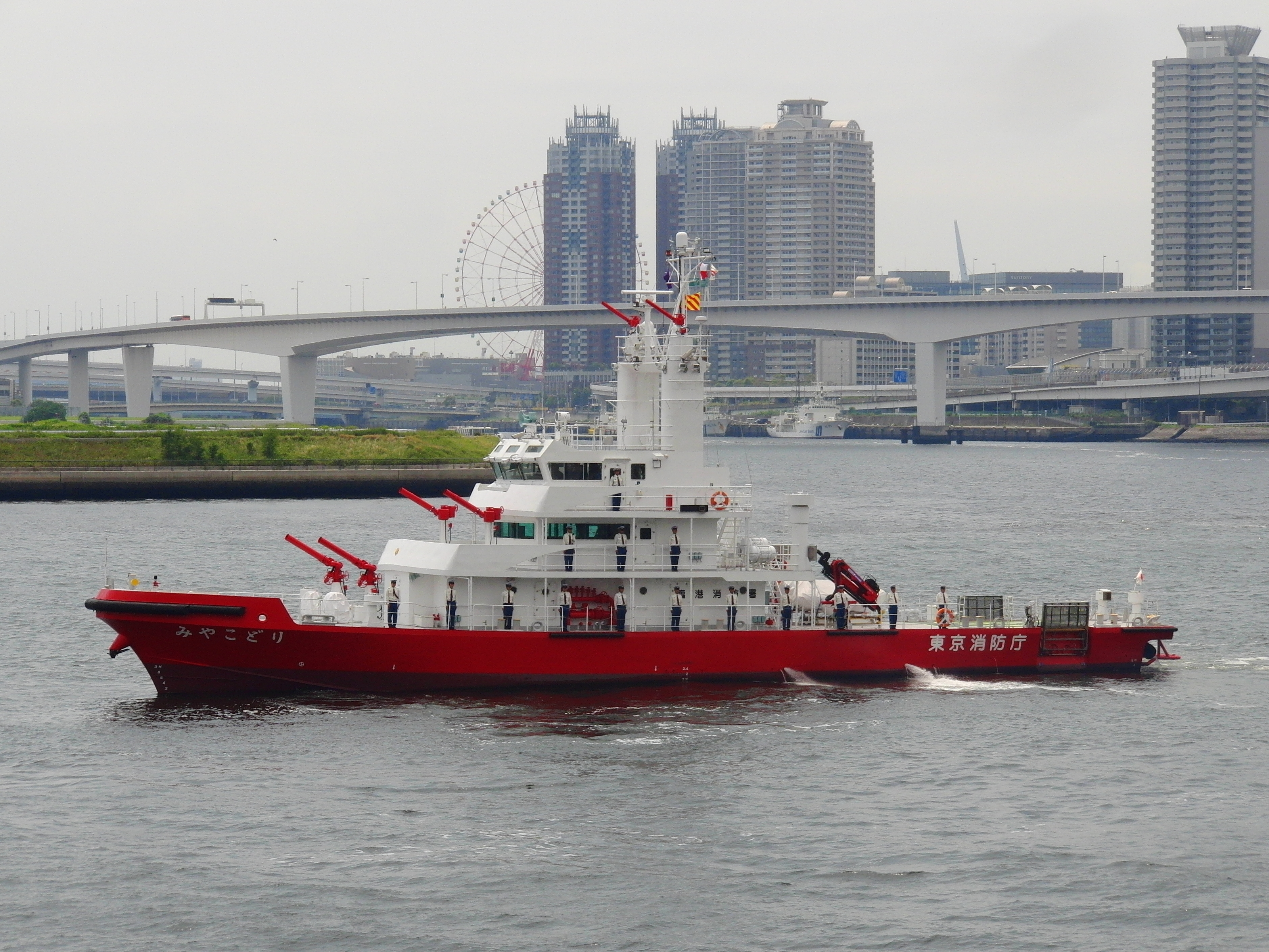 Fireboat of the Tokyo Fire Department "Miyakodori" (4th) at Tokyo Fire Department Water Pageant 2013.